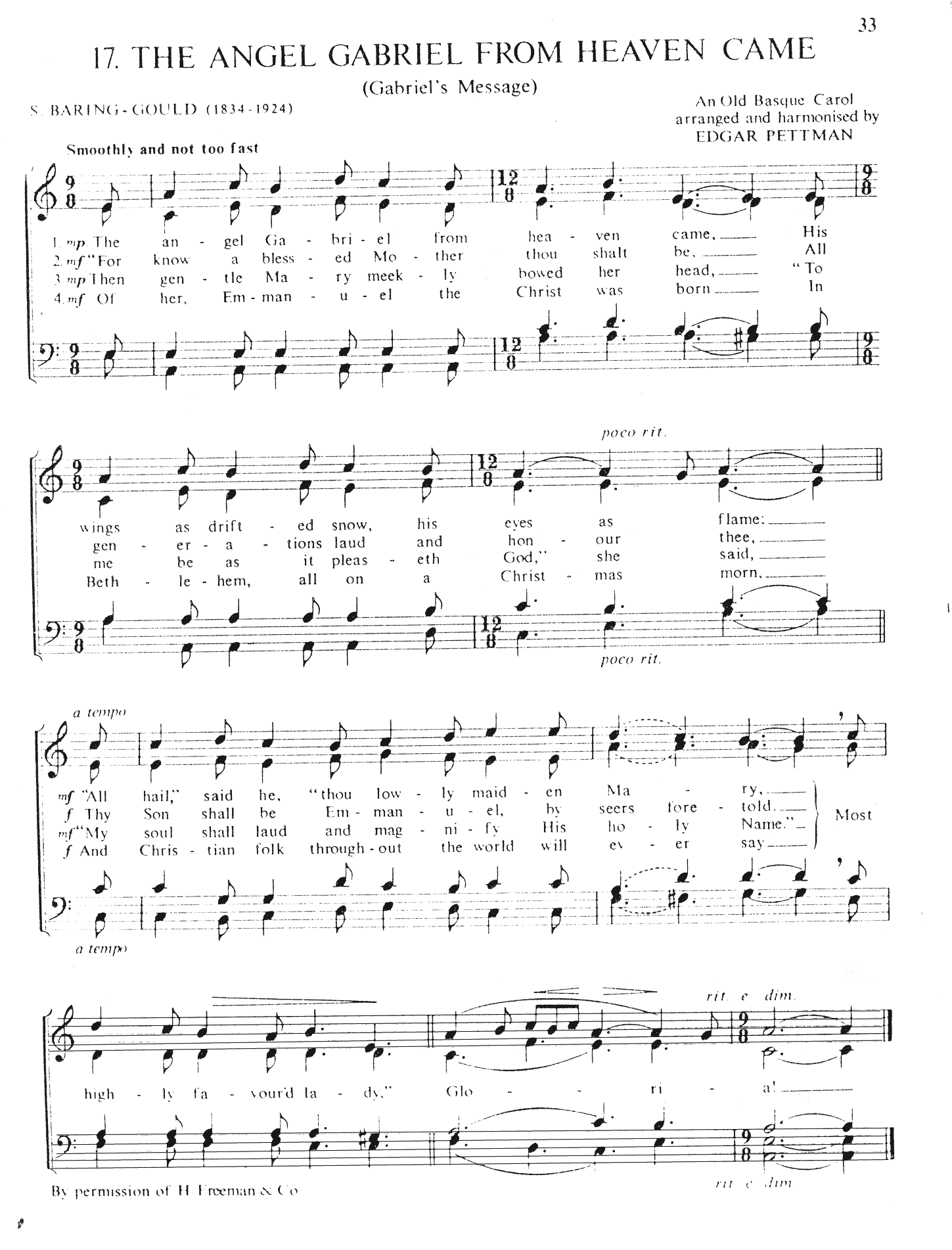 Sheet music for the hymn "Gabriel's Message" {aka The angel Gabriel from heaven came}